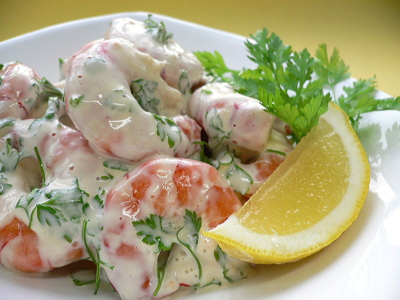 shrimp (boiled), lemon juice, fresh cream, mayonnaise, salt, chervil